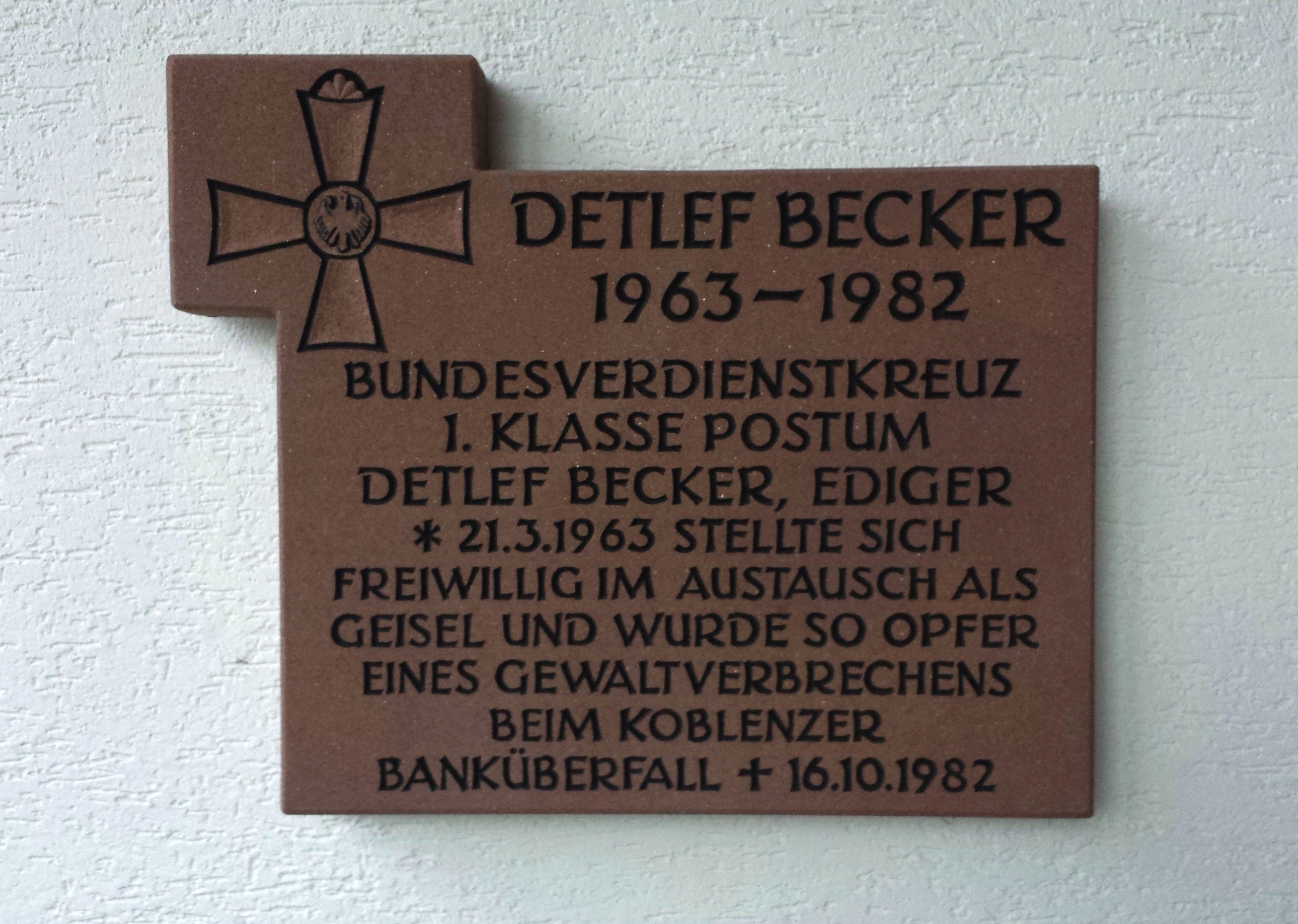 Honorary plaque for Detlef Becker (1963-1982) in Ediger